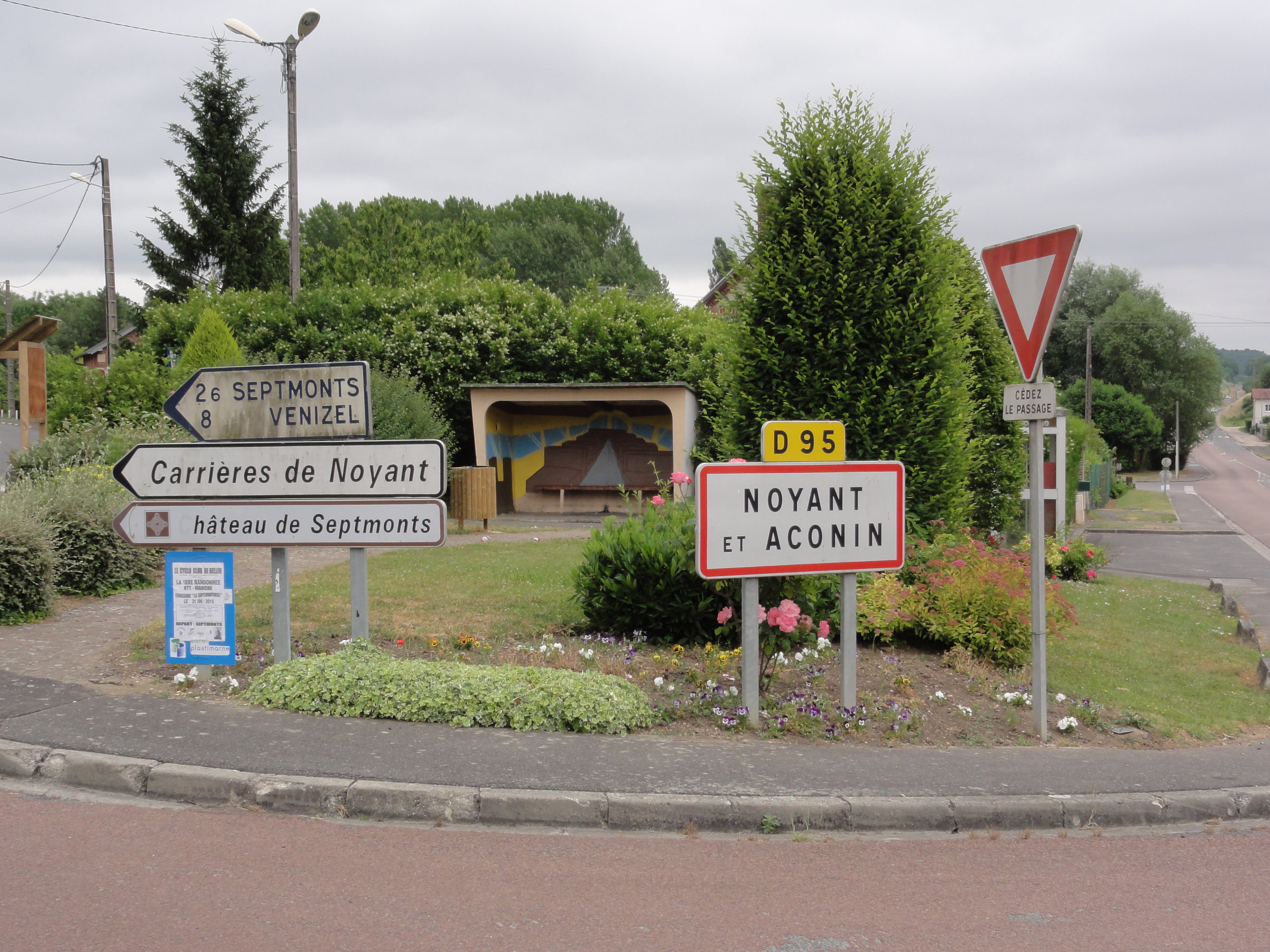 Noyant-et-Aconin (Aisne) Entrée